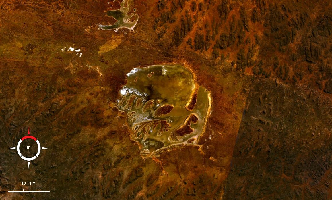 Lake Acraman (impact crater) in South Australia, Landsat image.